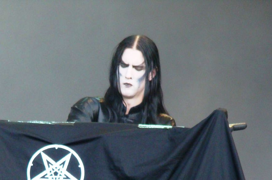 Mustis of Dimmu Borgir, Gods of Metal festval, 2007